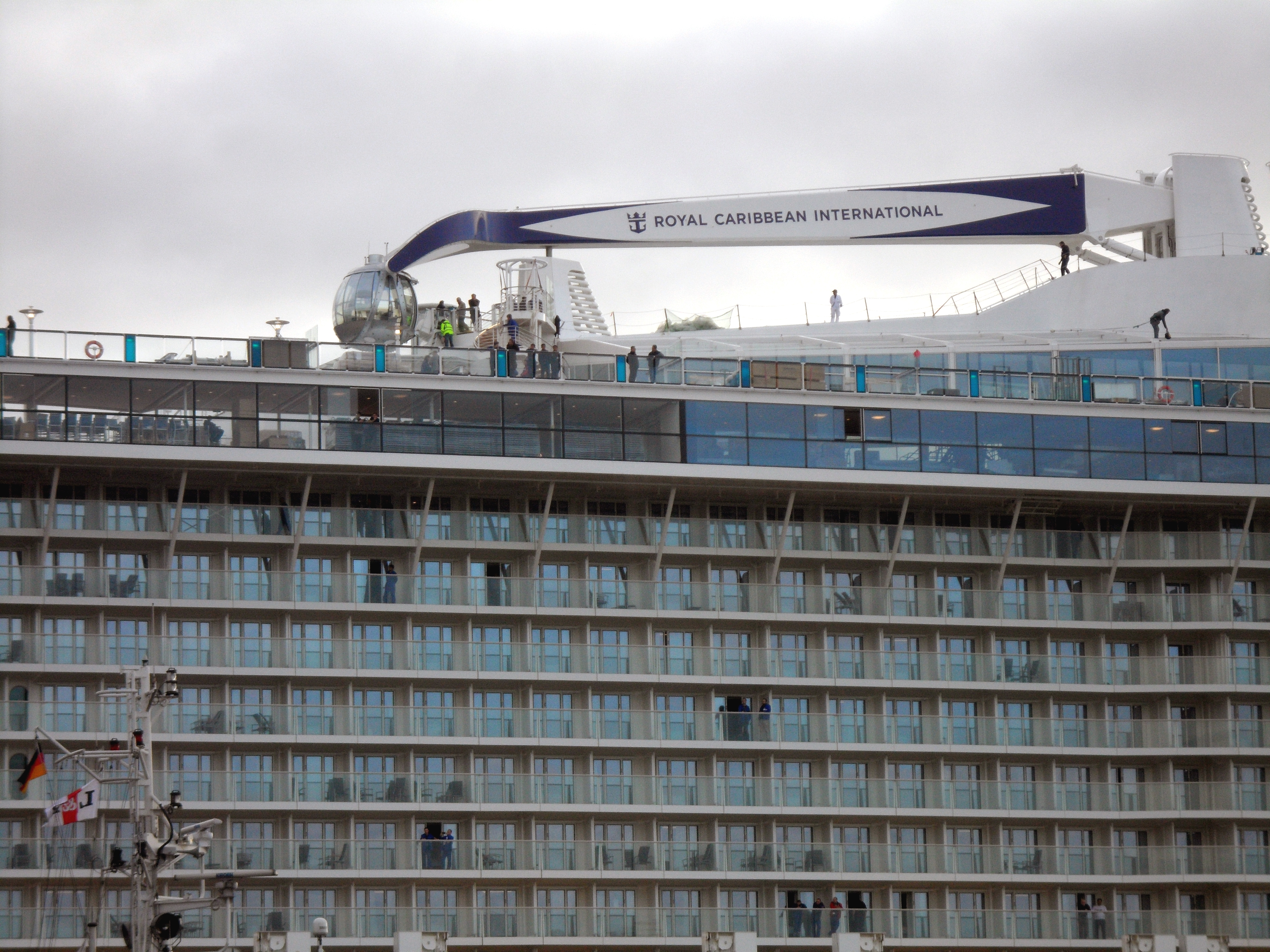 The new cruise ship, Quantum of the Sea with the crane and the hinged glass gondola